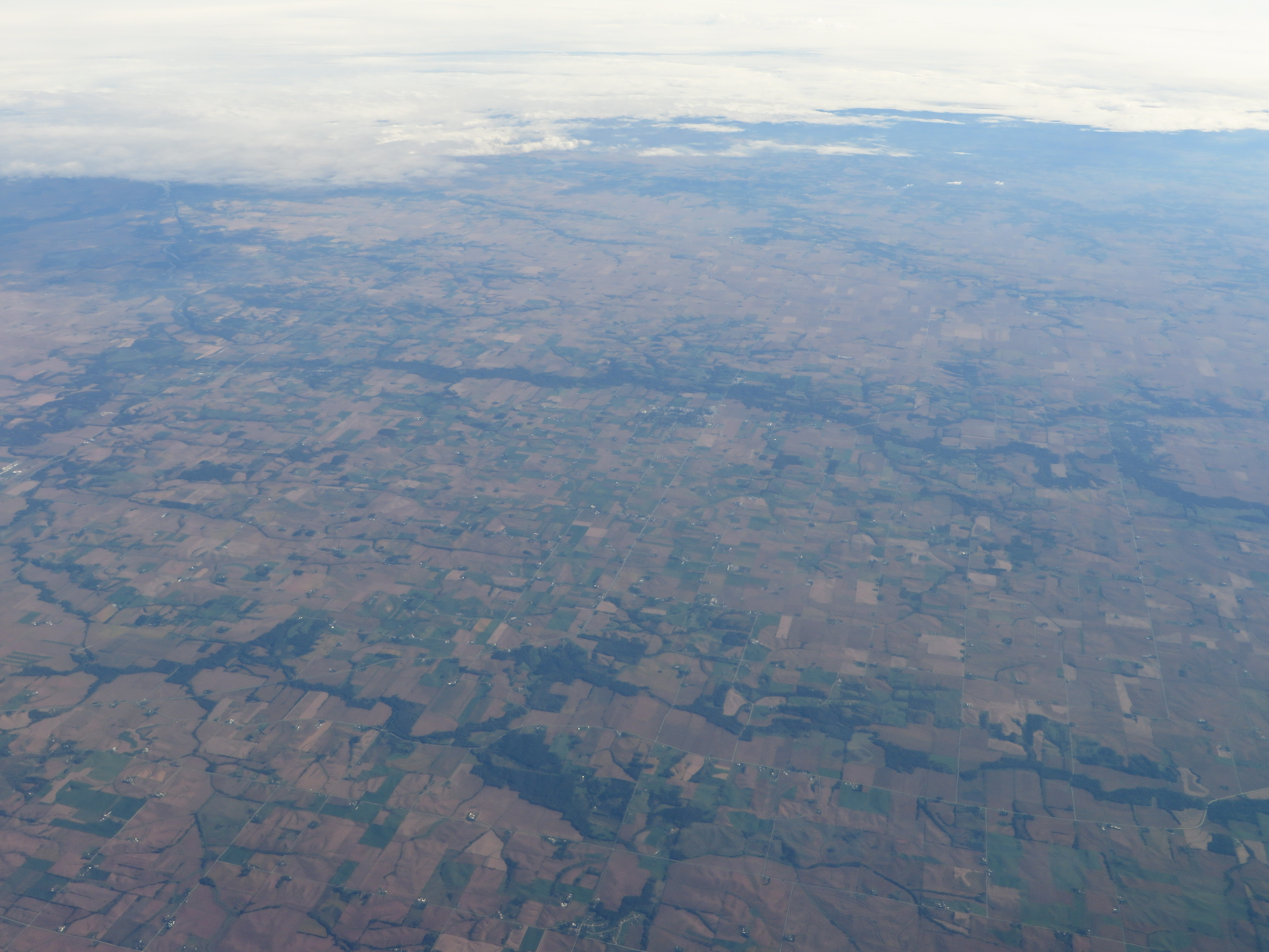 Kalona is a city in Washington County, Iowa, United States. It is part of the Iowa City, Iowa Metropolitan Statistical Area. The population was 2,363 at the 2010 census. Kalona is the second largest city in Washington County. Amish settlement in what is now the Kalona area began in the 1840s, placing the Amish among the very first European settlers in the area. Other Amish groups came later. The Beachy Amish, for example, first arrived in the 1920s. Kalona is home to a burgeoning craft, antiques and local products industry. Its proximity to both Iowa City, Iowa and a large Amish settlement have allowed growth in population and industry in recent years. The town is home to a variety of locally owned shops and restaurants. This quaint city centers around the historic old town business section of Kalona, which features many local businesses that are popular with tourists. Not far from Kalona is located one of the largest Amish settlements west of the Mississippi with 9 church districts and a population of roughly 1,200 people. It is the oldest in Iowa, founded in 1846. Kalona is the home of the Iowa Mennonite Archives, located at the Kalona Historical Village. The Iowa Mennonite School is located a few miles northwest of Kalona.